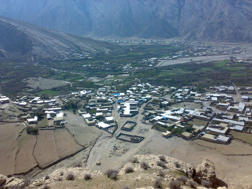 Dili rosta